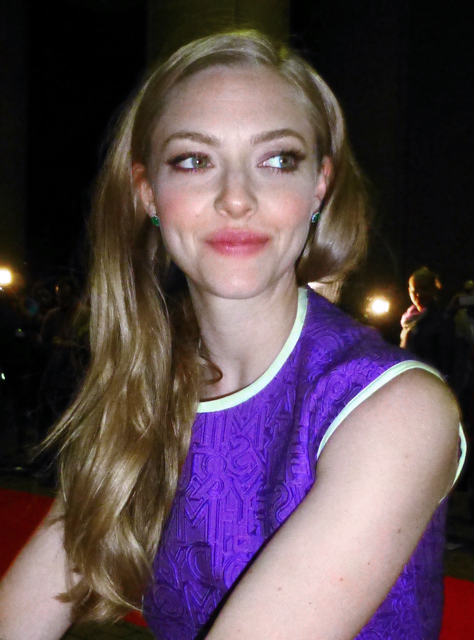 Amanda Seyfried at the premiere of Tusk, 2014 Toronto Film Festival